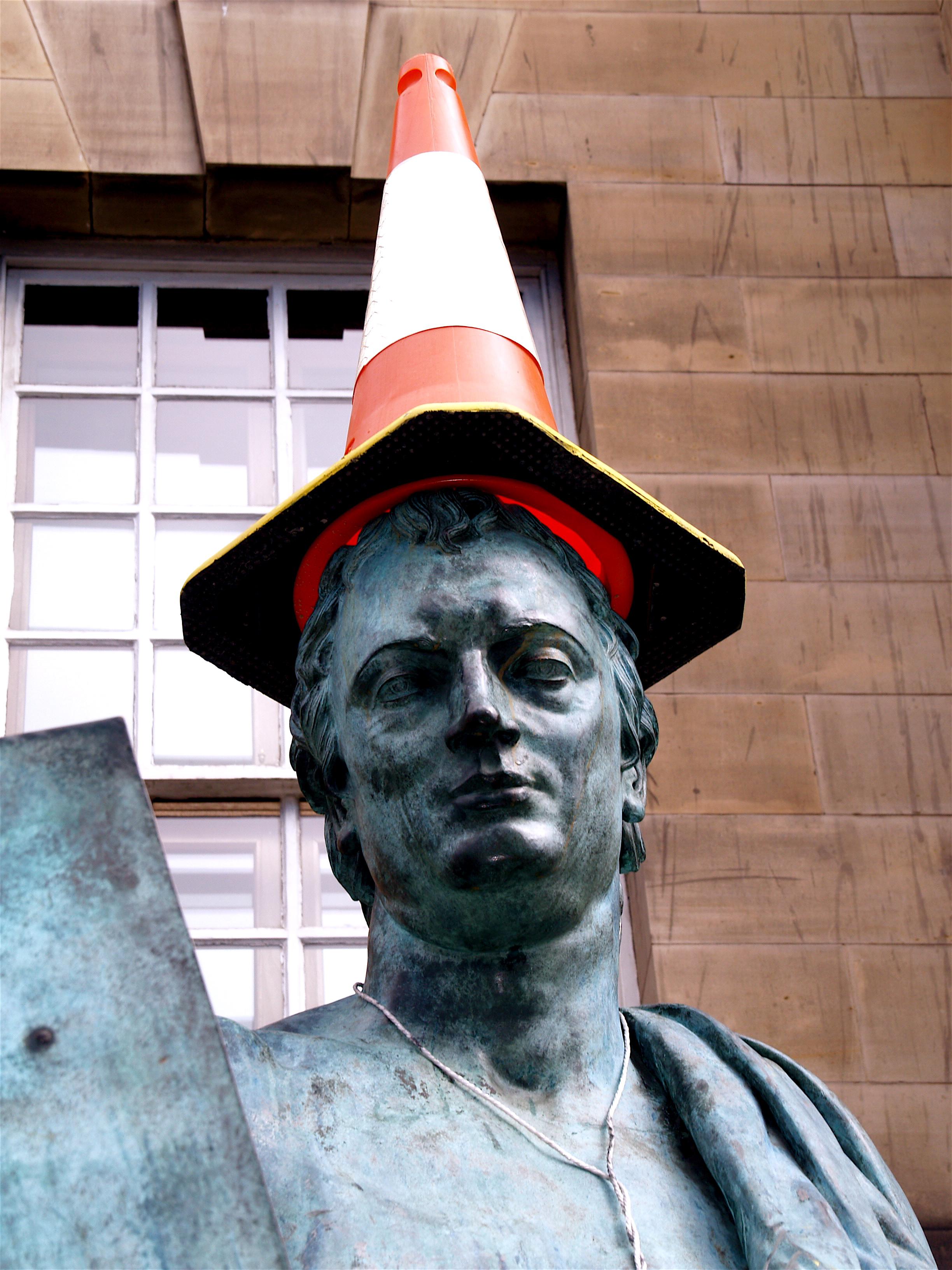 Statue of Hume. Edinburgh. May 2006.